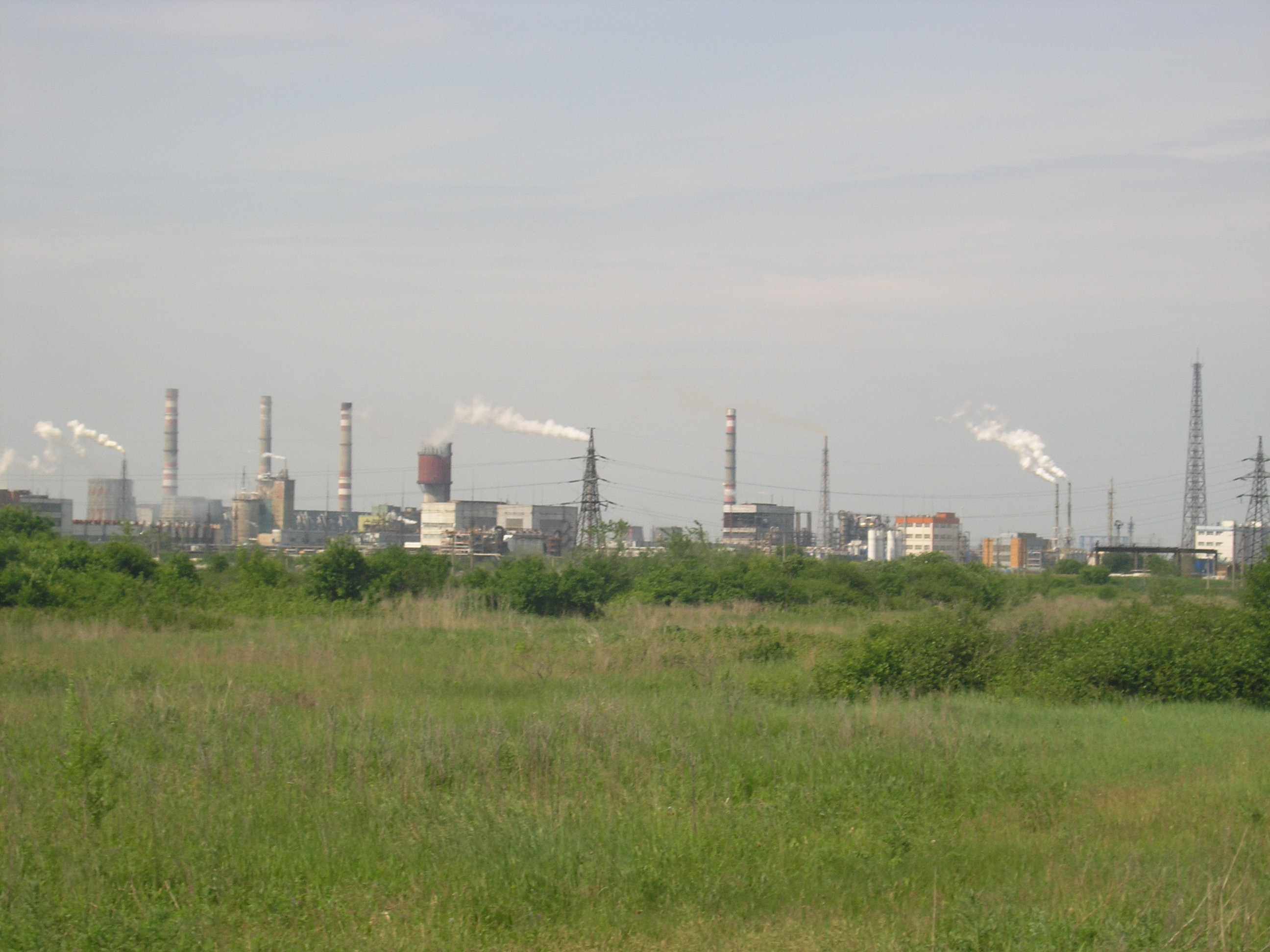 chemical plants, Togliatti, Russia